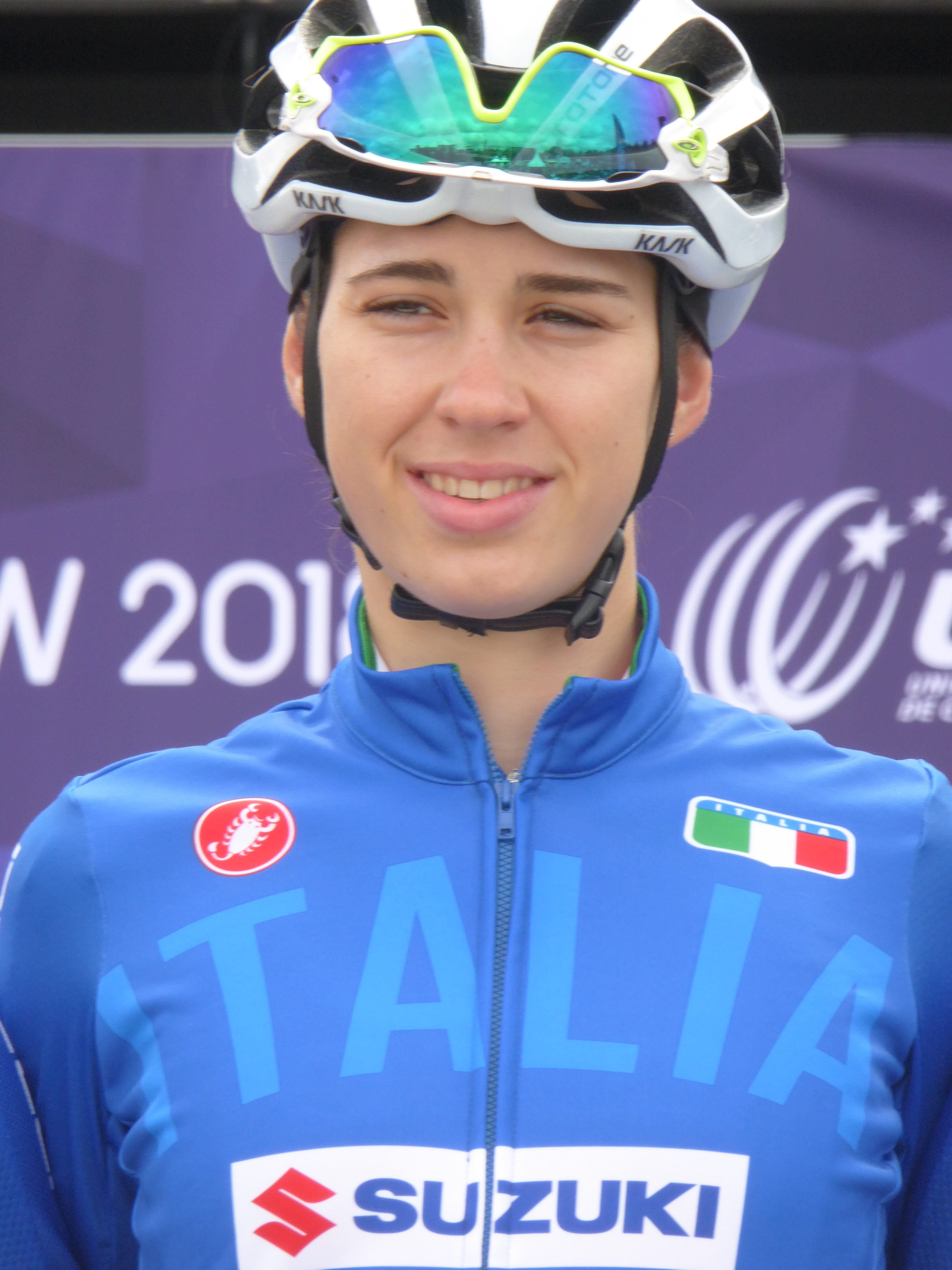 Marta Cavalli (Italy), prior to the women's road race at the 2018 UEC European Road Cycling Championships in Glasgow.